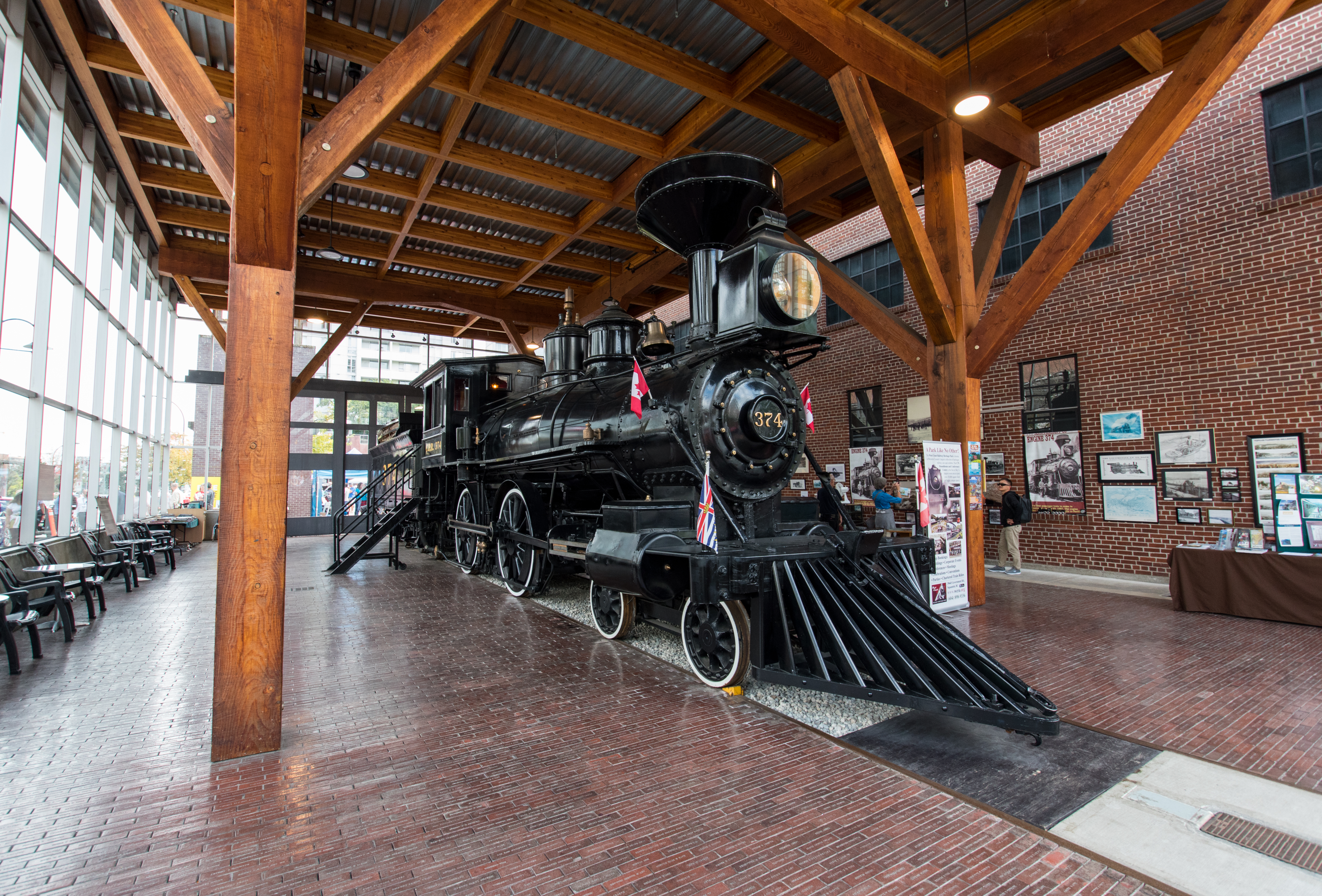 Canadian Pacific Railway 374 in Vancouver, BC.